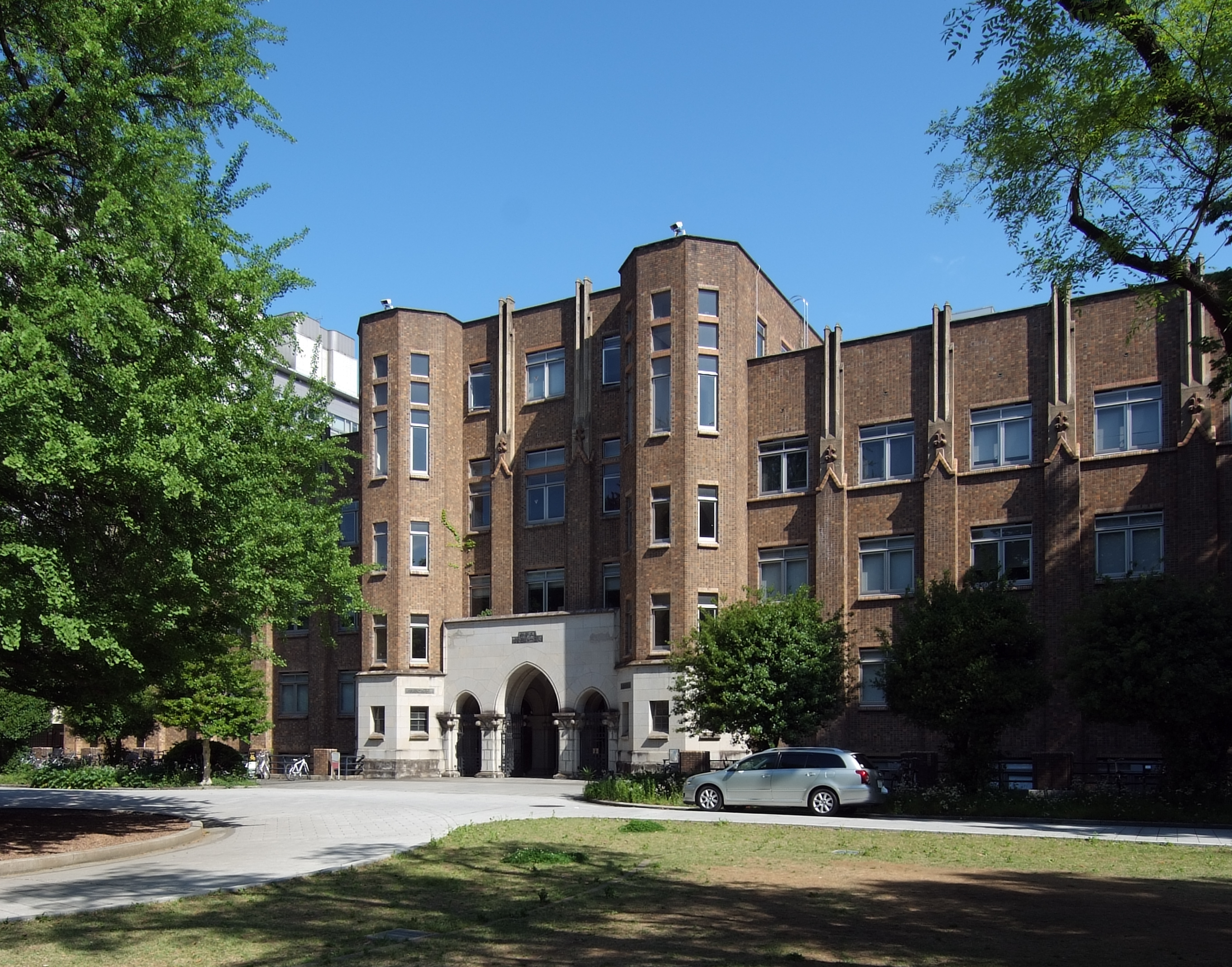 Faculty of Engineering Bldg1, Tokyo University, Bunkyo-ku Tokyo Japan, designed by Yoshikazu Uchida in 1935.